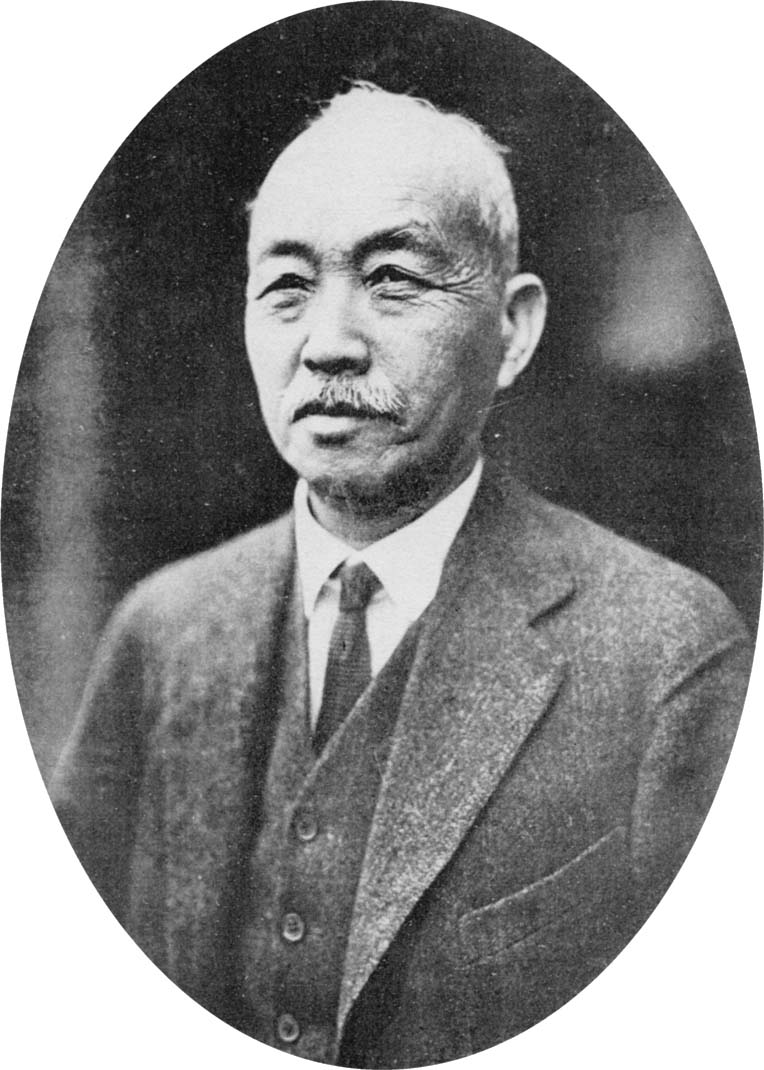 Late Tokiyoshi Yokoi, 1st president of the Tokyo University of Agriculture.